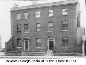 University College, Bristol 1876